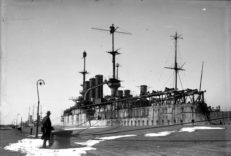 Former battleship Preußen, converted to a depot ship for minesweepers